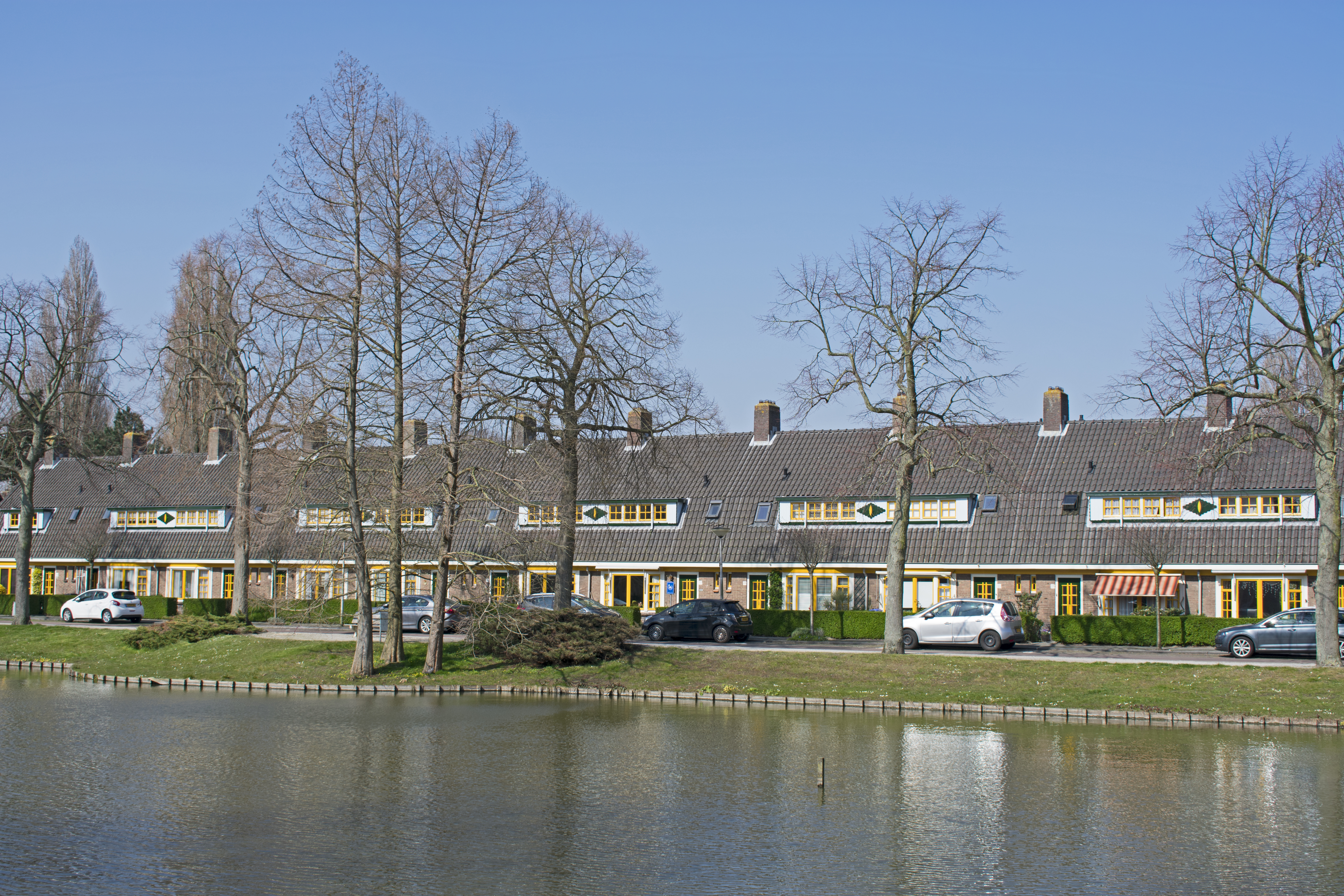 Vijver Noord, Delft